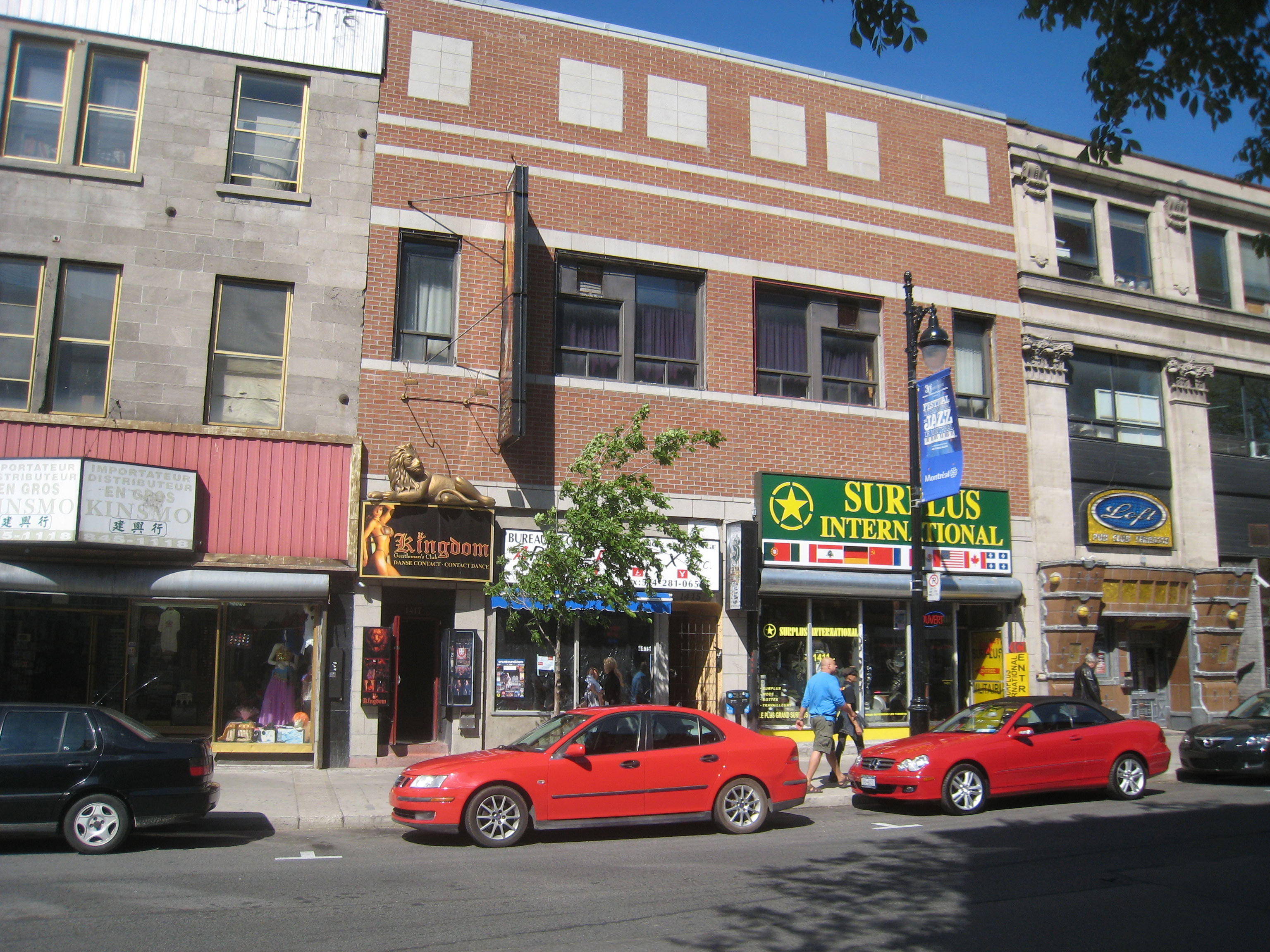 Entrance to the 2nd floor entertainment venue located at 1417 St. Lawrence Blvd. in Montreal. The Au Faisan Doré cabaret was located here in the late 40s. It had become, in May 2009, a female erotic dancers bar, the Kingdom Gentlemen's Club.